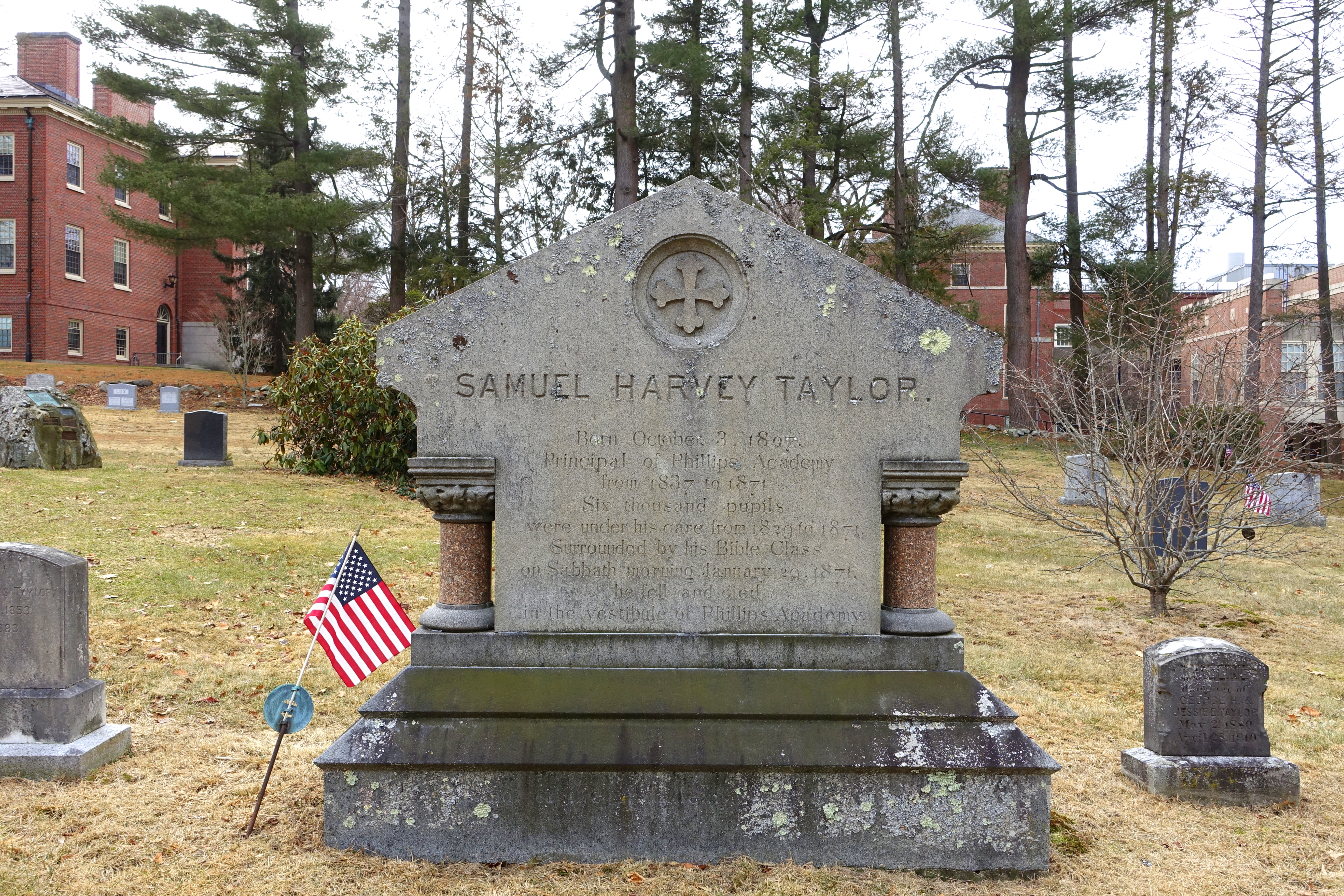 Chapel Cemetery - Phillips Academy Andover - Andover, Massachusetts, USA.